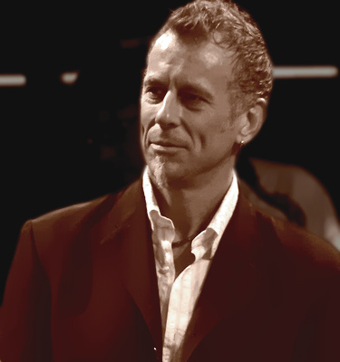 vibraphonist / composer Joe Locke, June 2007